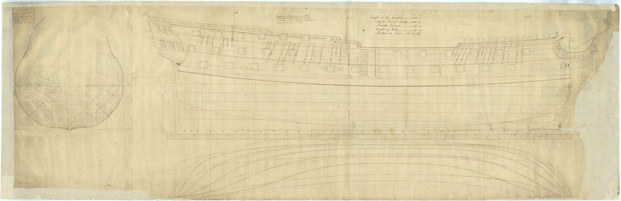 Scale: 1:48. Plan showing the body plan, sheer lines and longitudinal half-breadth for 'Dragon' (1760) and 'Superb' (1760), and 'Bellona' .(1760), 74-gun Third Rate, two-deckers.